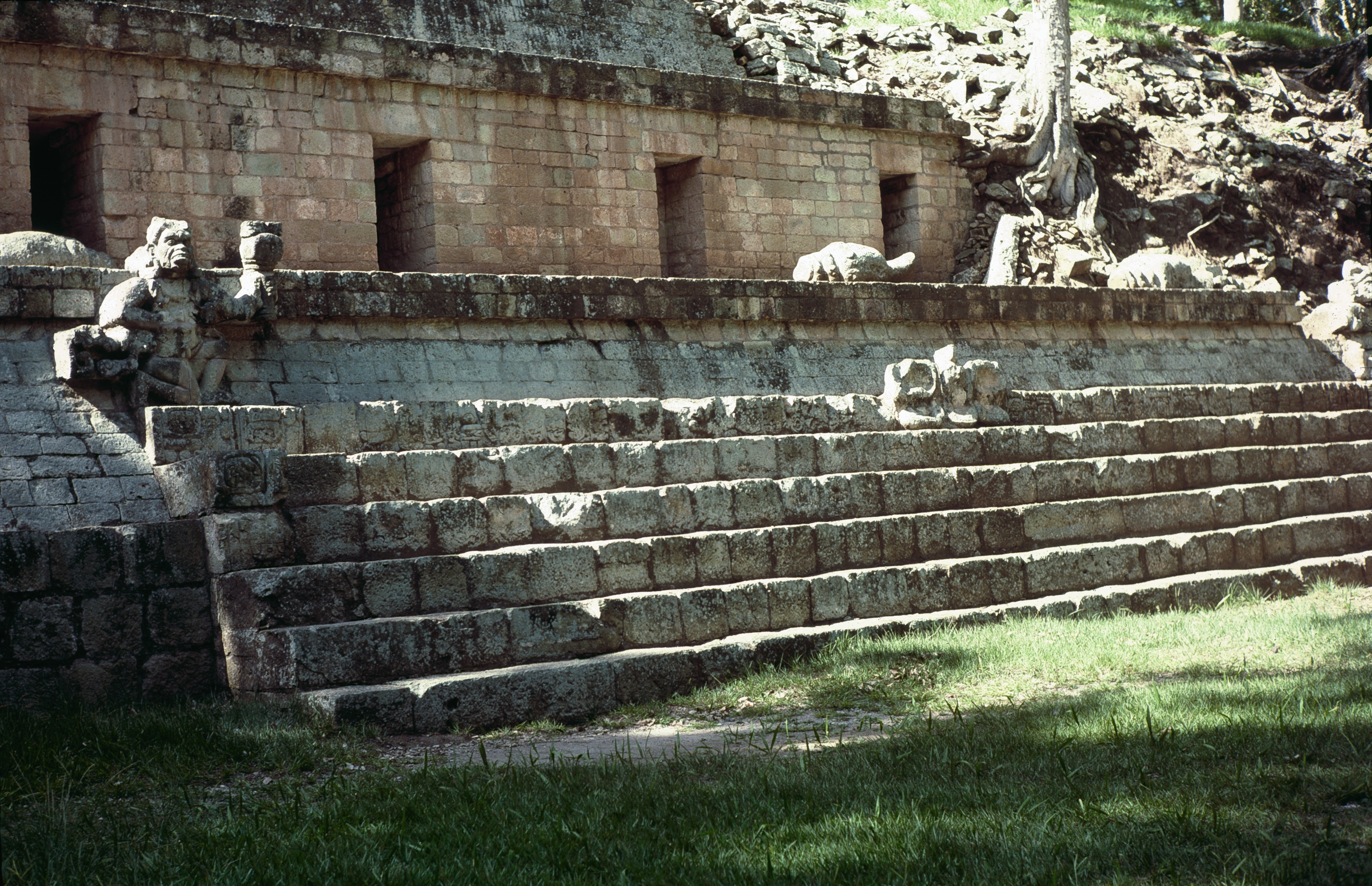 Copan, Honduras, Temple 11, Reviewing Stand